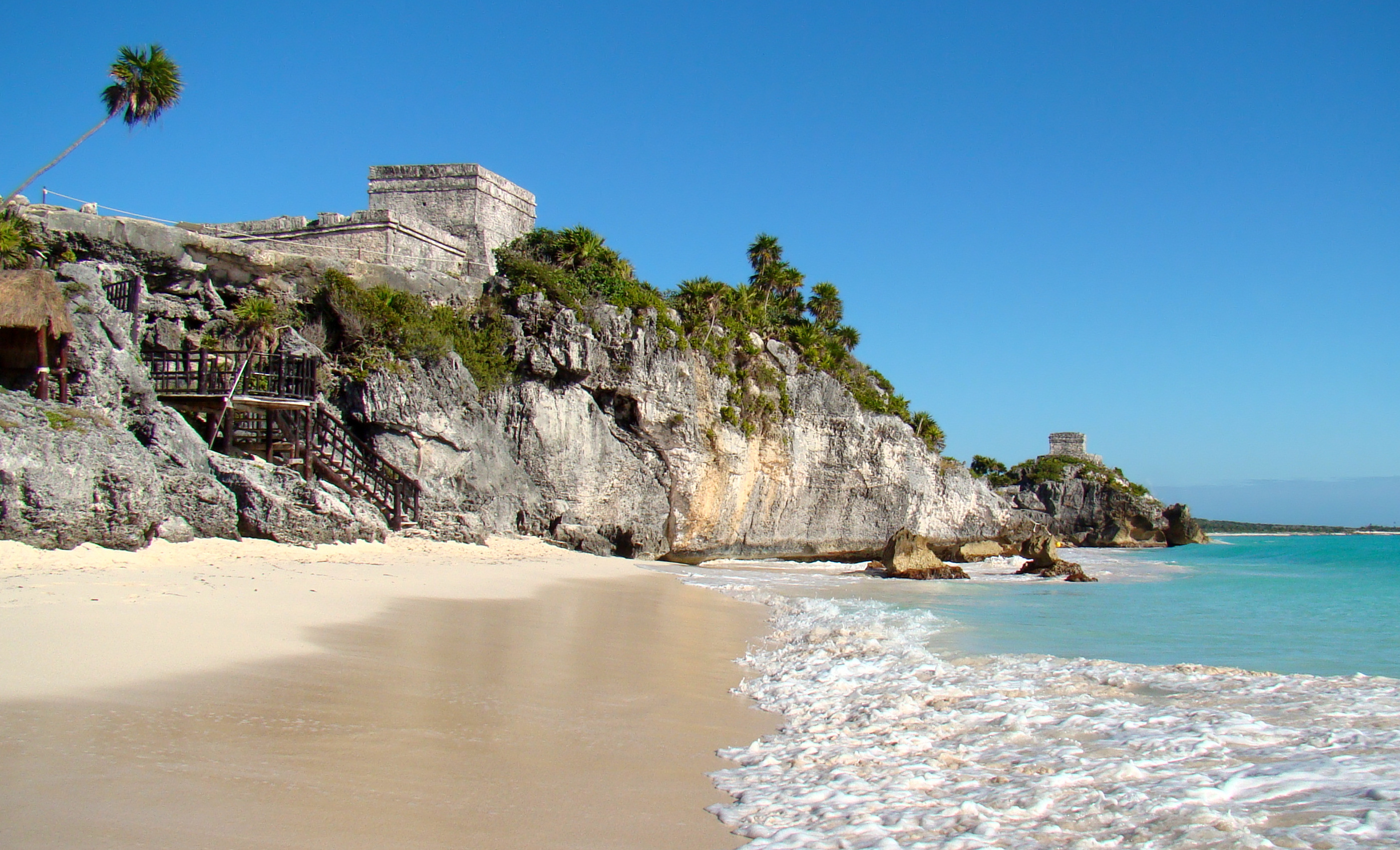 The largest building of the Tulum complex, the guard tower nicknamed El Castillo, in the front and Templo del Dios del Viento (Temple of the Wind God) in the back. They appear particularly impressive when seen from the sea, on top of the cliffs. The picturesque beach below is also a breeding ground for sea turtles.